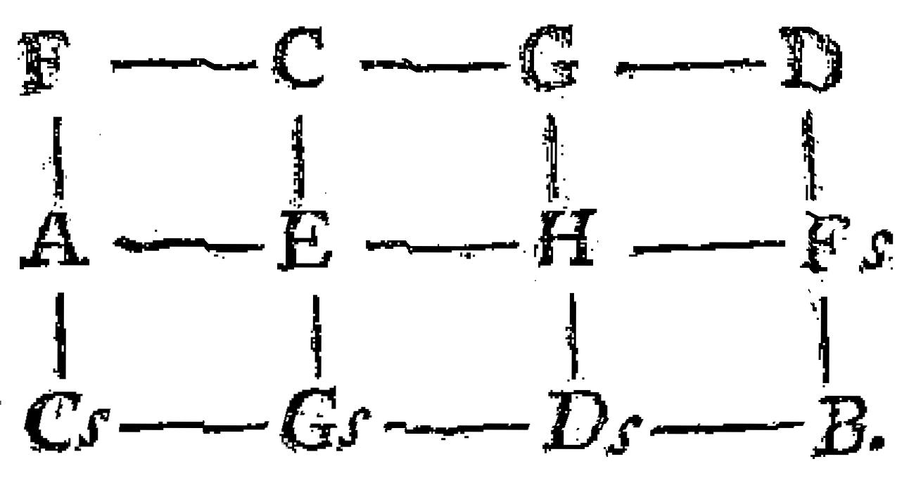 Image of Euler's Speculum musicae